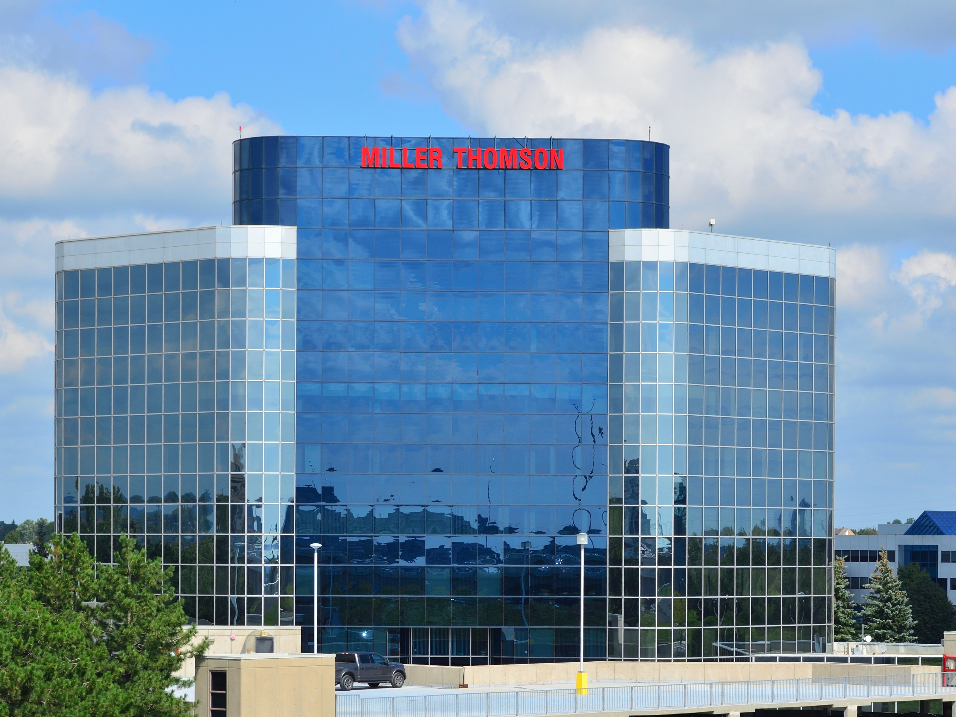 Miller Thomson office in Markham